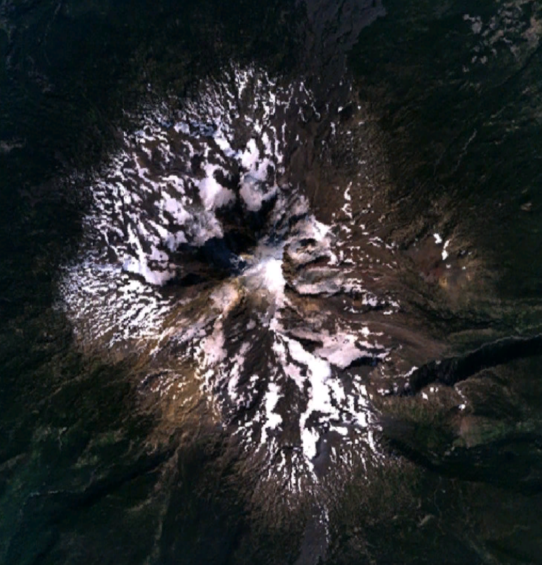 Satellite view of Mount Adams.